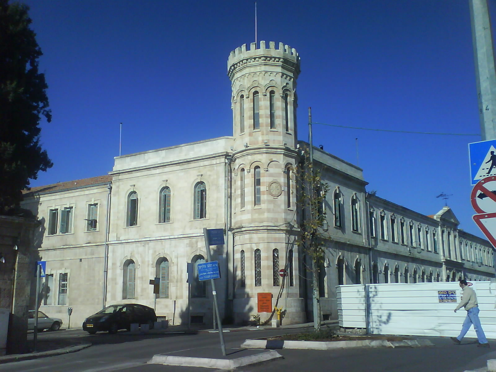 The Sergei courtyard in the Russian Compound in Jerusalem, completed in 1890 by architect Frank Gia